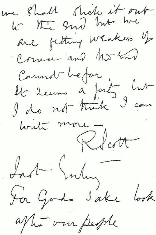 Last page of Robert Falcon Scott Diary